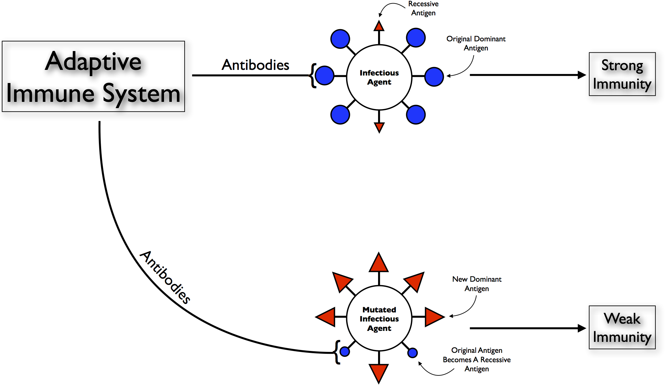 Diagram explaining the Original Antigenic Sin hypothesis.